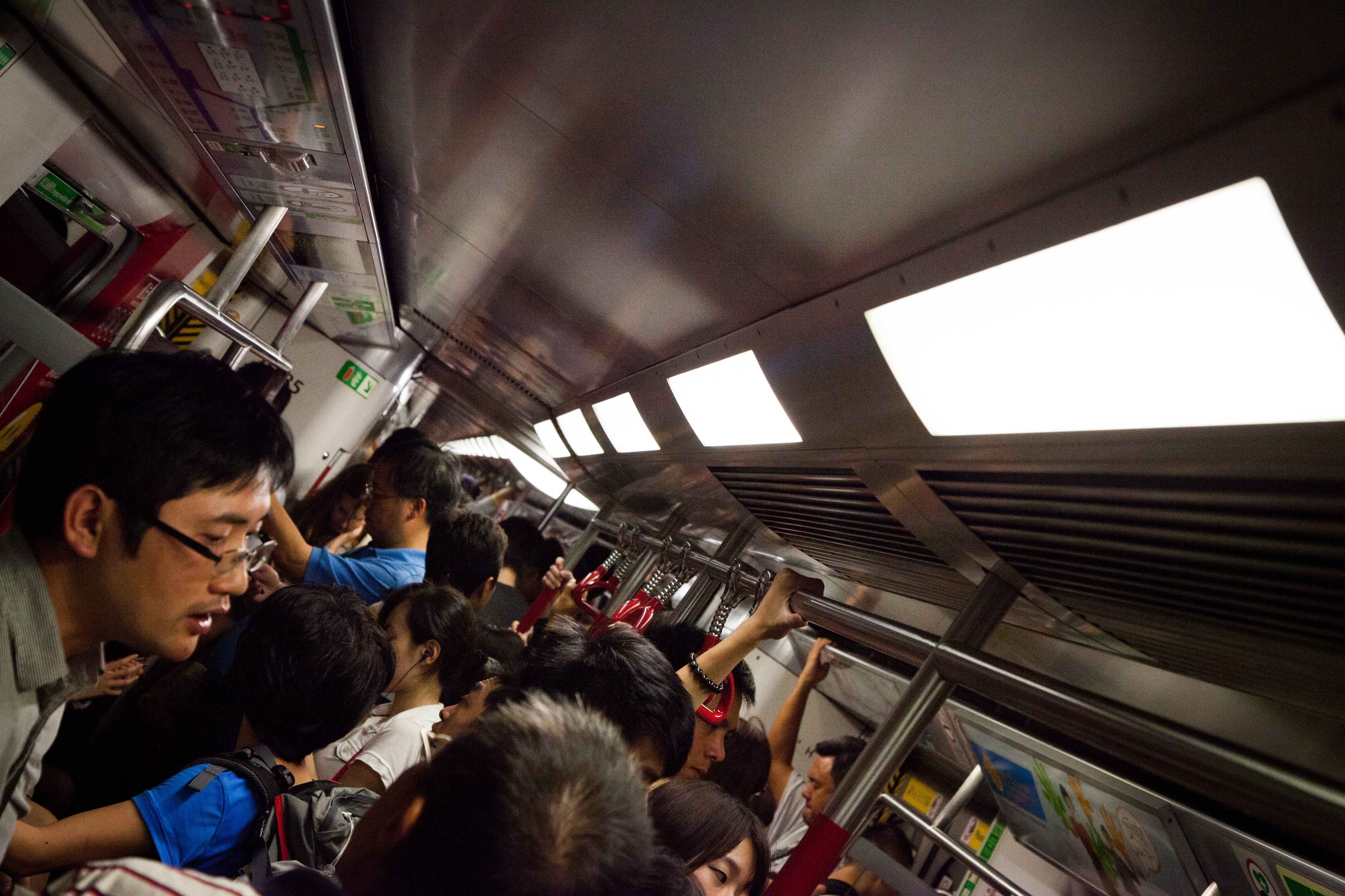 This was taken at 22:28 Hong Kong time and the trains are still very busy. The MTR is an impressively well used system in the evening; much like London, and, barring this, I think unlike any other system I've been on.